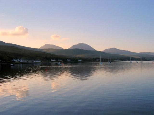 Evening light on Small Isles Bay Caigenhouses, north of Craighouse, and the Parish Church line the coast road with a backdrop of the magnificent Paps of Jura. The tip of Beinn a' Chaolais, the most southerly of the three Paps is just visible on the left of the photograph behind the nearer hills. The hill on the right, not one of the Paps, is Corra Bheinn.